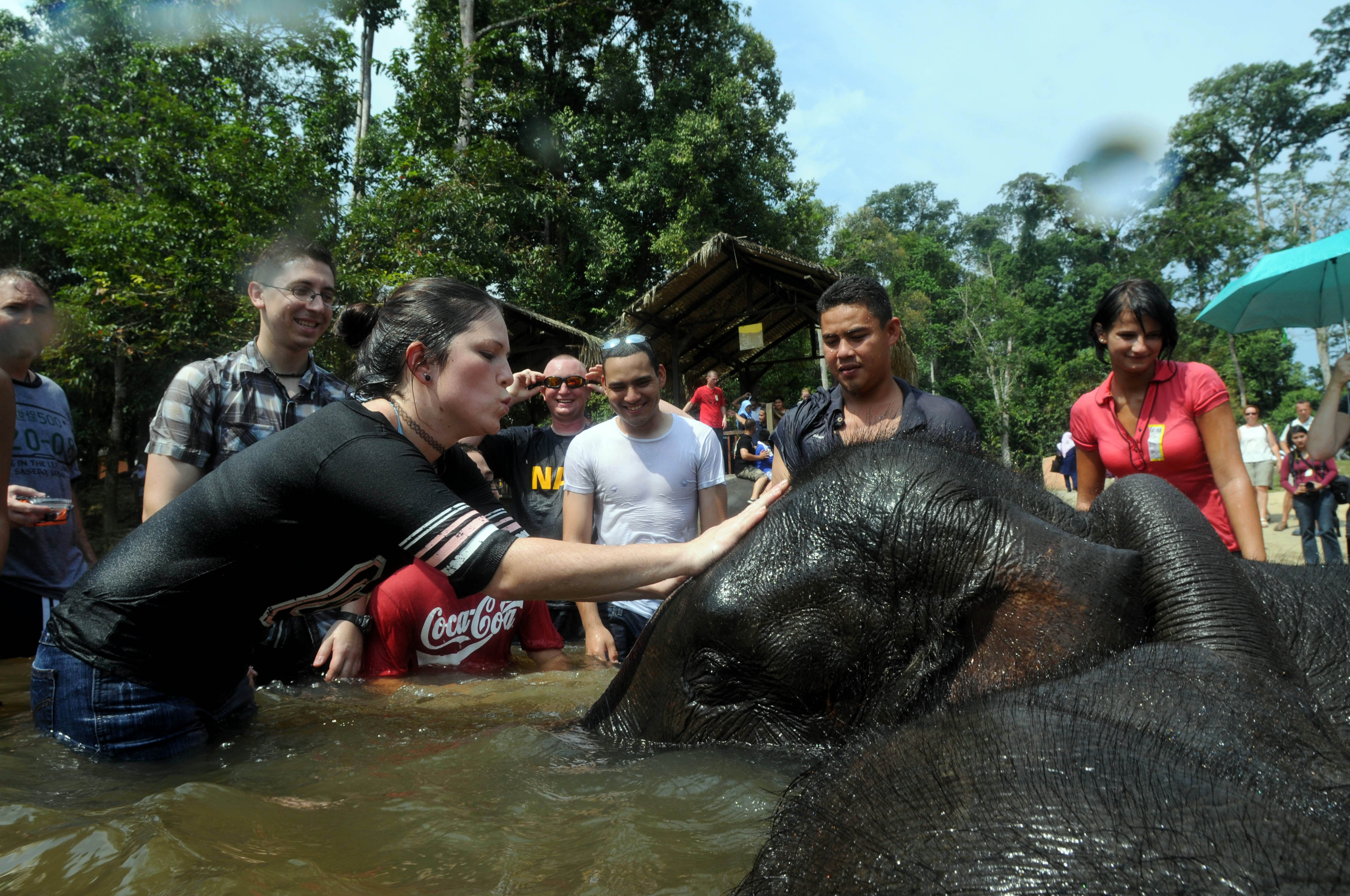 KUALA GANDAH, Malaysia (Aug. 20, 2008) Boatswain's Mate 3rd Class Neenah Jones, assigned to the Nimitz-class aircraft carrier USS Ronald Reagan (CVN 76), along with other Sailors and tourists, washes a young Asian elephant's head at the Kuala Gandha Elephant Conservation Center. The Ronald Reagan Carrier Strike Group is in Port Klang, Malaysia, for a routine port call. The Ronald Reagan Carrier Strike Group is on a scheduled deployment in the U.S.7th Fleet area of responsibility operating in the western Pacific and Indian oceans. (U.S. Navy photo by Mass Communication Specialist 2nd Class Joe Painter/Released)